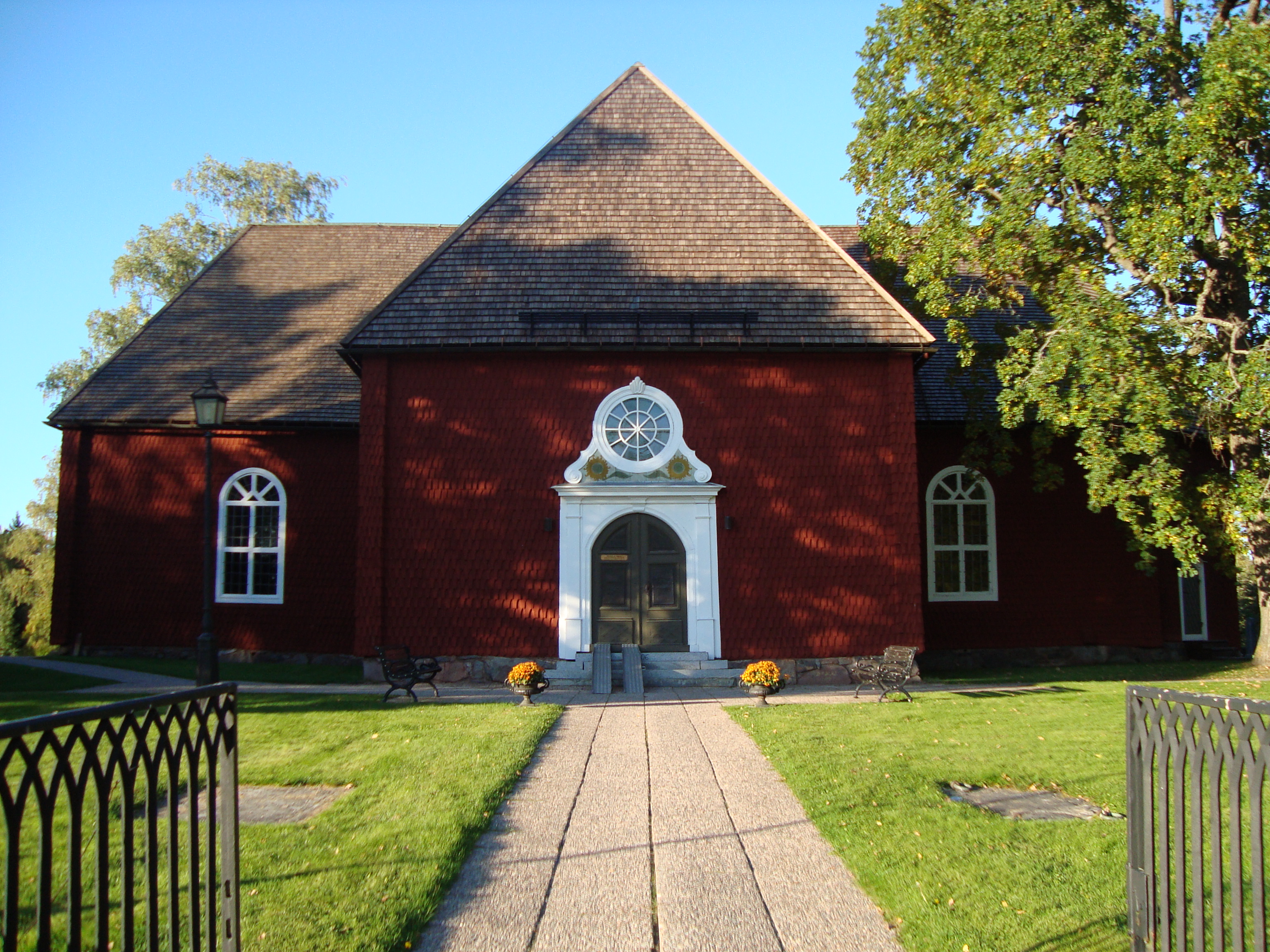 Church of Sundborn, Sweden